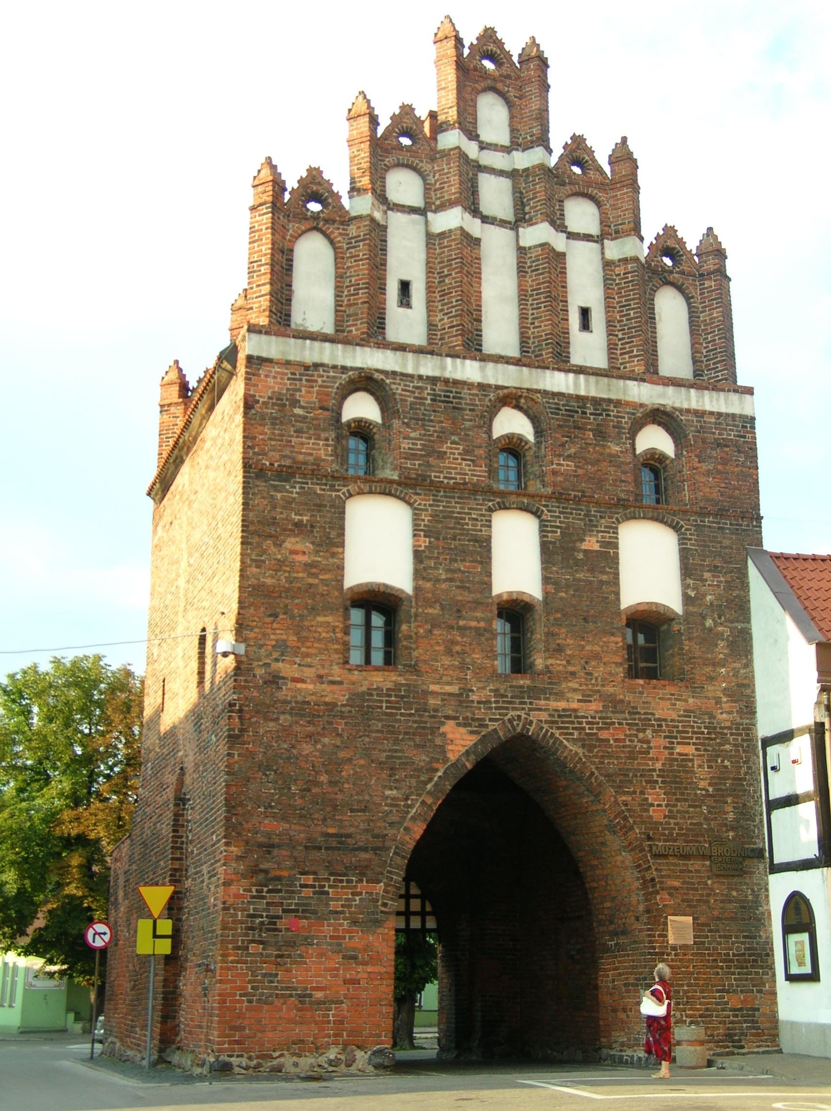 Brodnica, Chełmno Gate (Stone Gate)